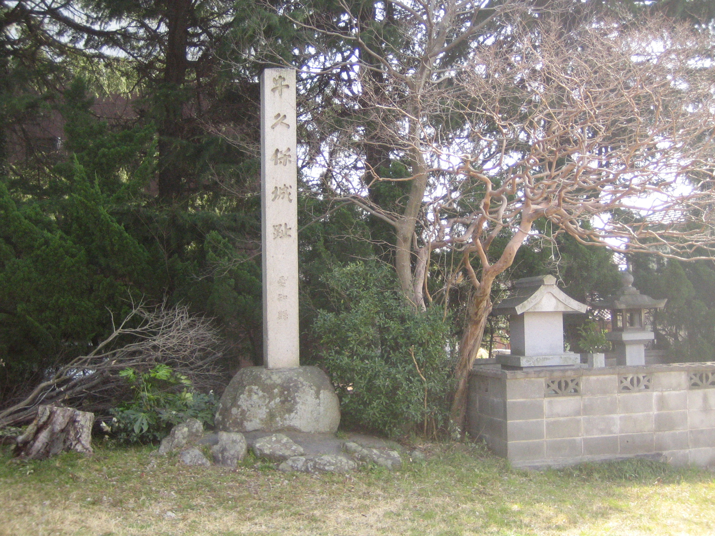 牛久保城址。愛知県豊川市 Ruins of the Ushikubo Castle (牛久保城 Ushikubo-jō), located in Toyokawa, Aichi, Japan